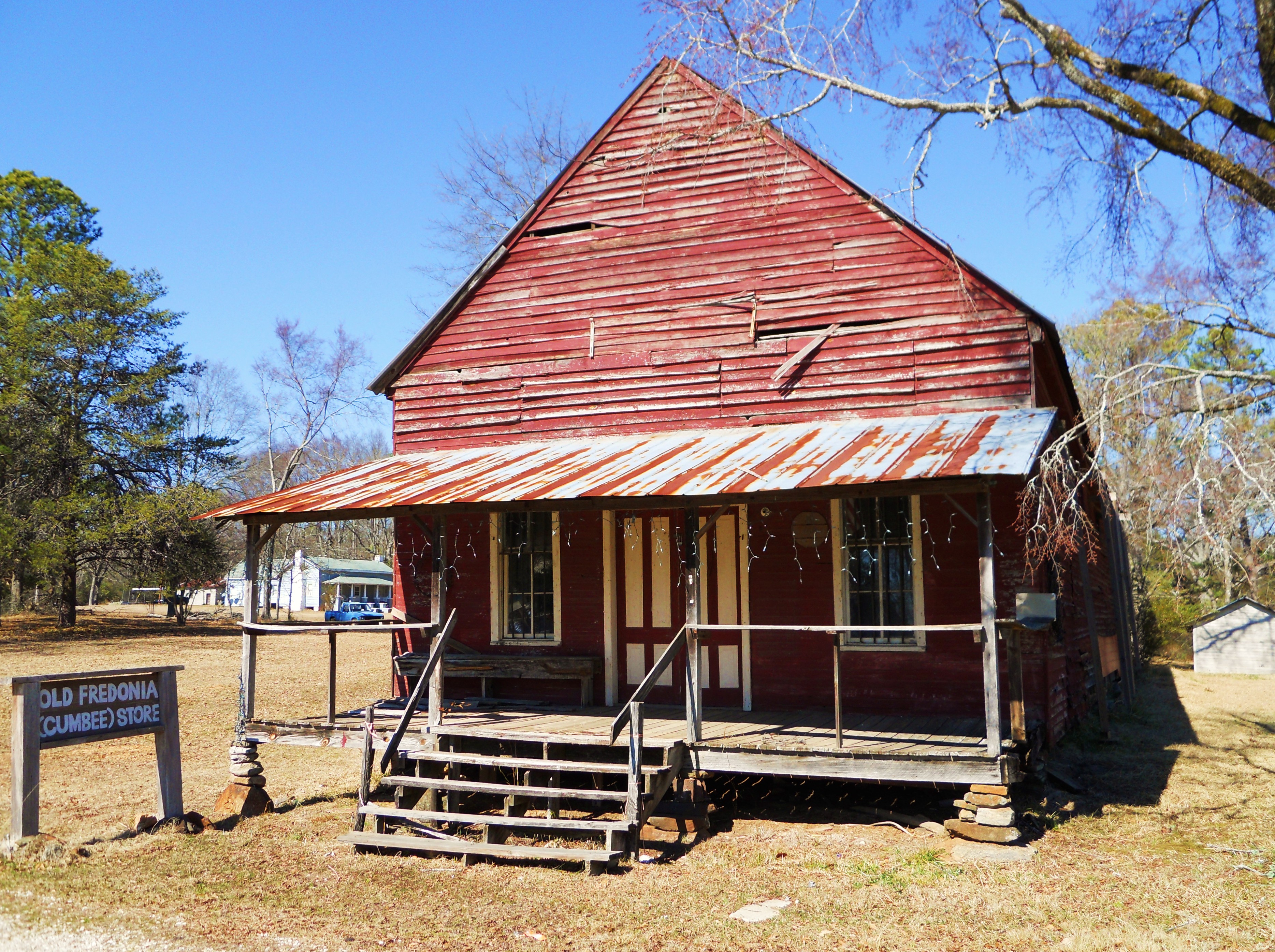 This is a photograph of the Old Fredonia (Cumbee) Store located in Fredonia in Chambers County, Alabama. Currently owned by the Alsabrook family and not in use today. This is one of the only stores in the heart of Fredonia.